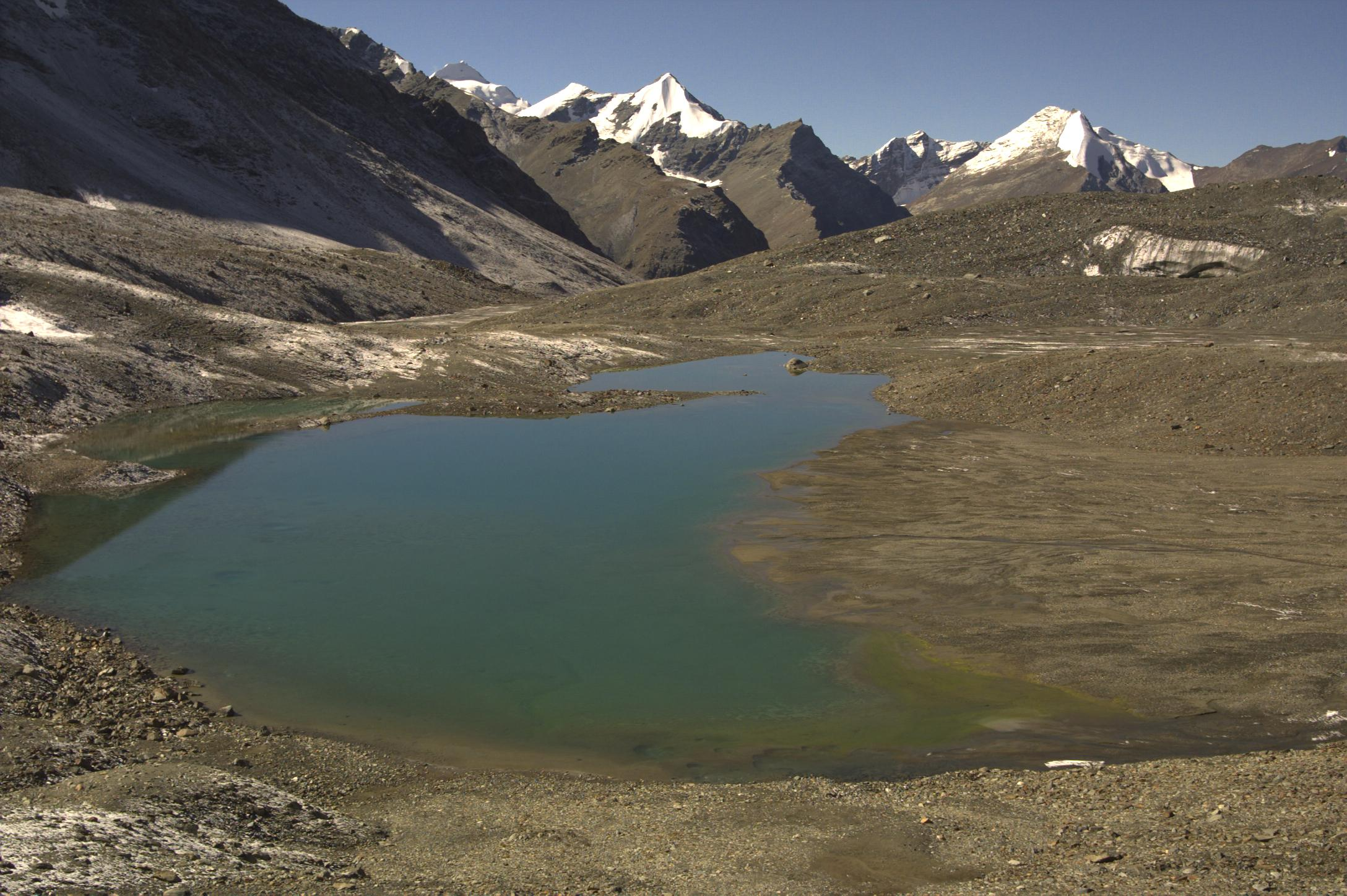 Lake on Shingo La, India